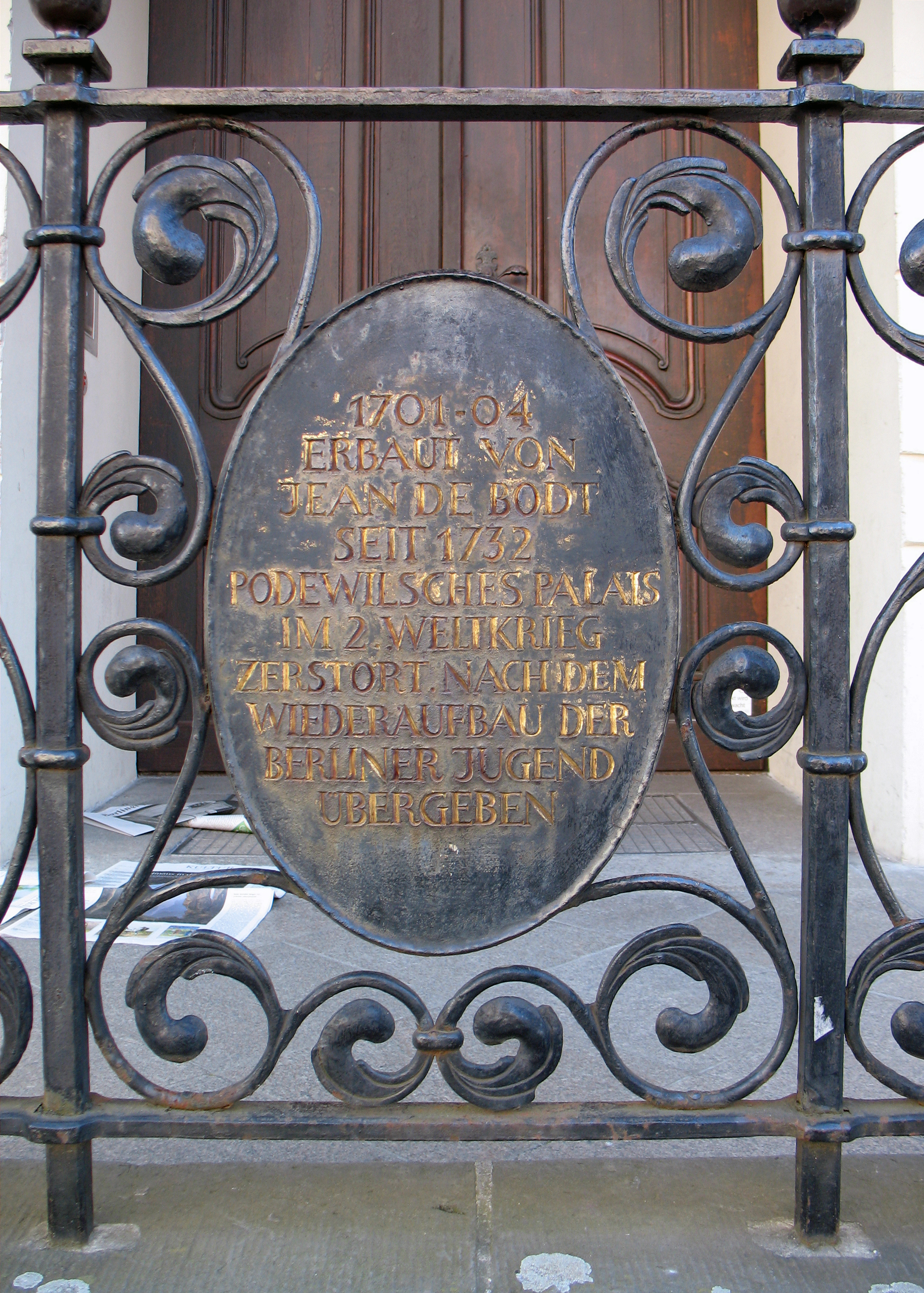 Memorial plaque, Podewilsches Palais, Klosterstraße 68, Berlin-Mitte, Deutschland